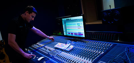 In the recording studio